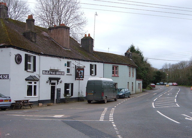 Halfway House Pub on A374 The pub on the map in real life stands proud at the head of an estuary inlet. The pub is a good waypoint as roads go off in all directions from it. I wish I could hear some of the conversations that went on in there in olden days. Oh yes.